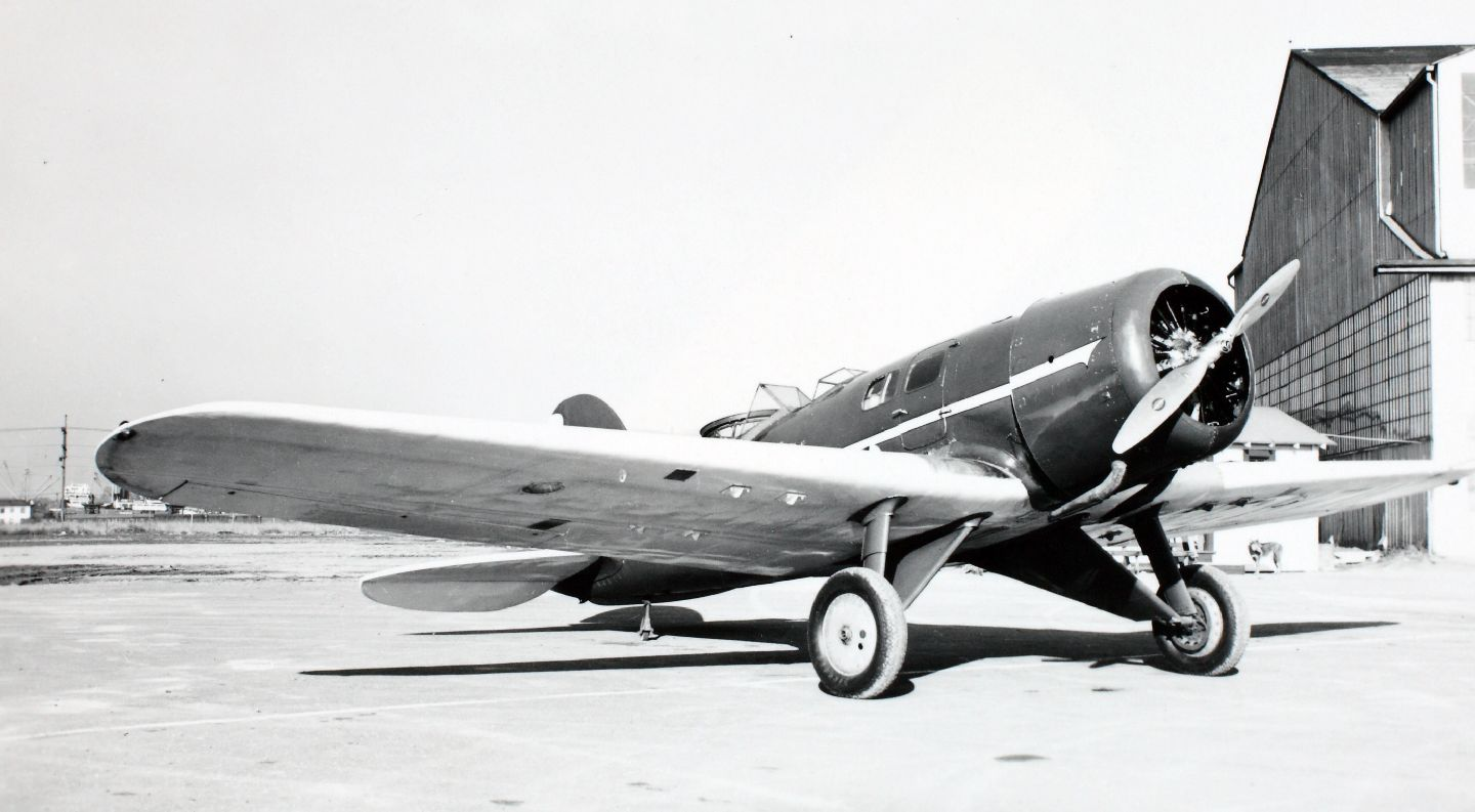 Paul Mantz's Lockheed Model 8 Sirius, NC117W.